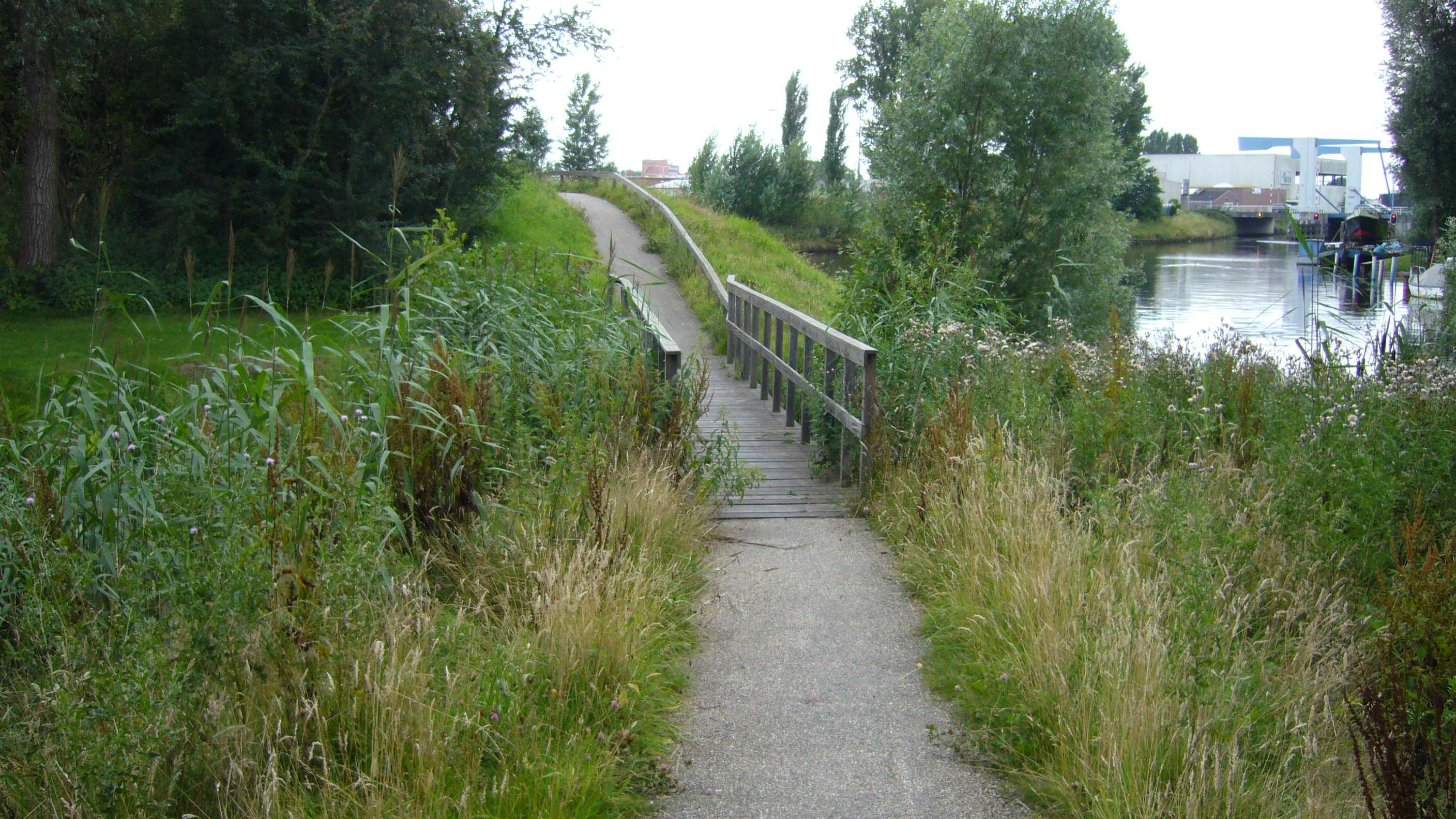 Marshland Hooglandsedijk, Amersfoort(Netherlands) northwestern corner with view over river Eem Location/Date Marshland Hooglandsedijk, Amersfoort, Netherlands, 2007/07/21 Taken with Panasonic Lumix DMC-FX3 Original picture 2816 x1584 pixels Photographer Wilma Verburg Conditions Please inform the photographer before using this image outside Wikimedia.